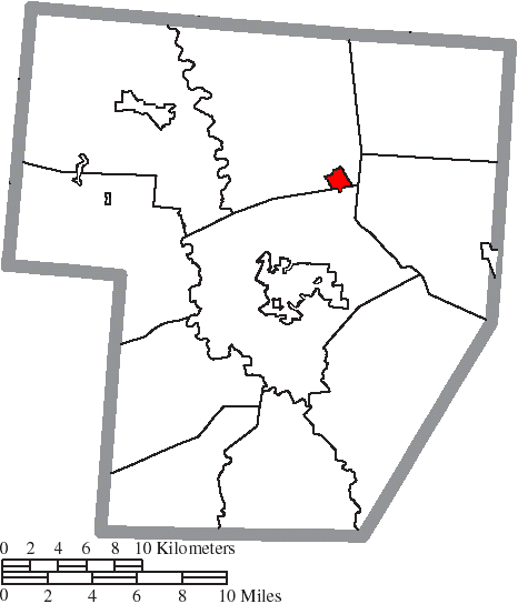 Map of the municipal and township boundaries of Fayette County, Ohio, United States, as of the 2000 census, with the location of the village of Bloomingburg highlighted. Township borders are shown only in unincorporated areas in order to differentiate incorporated and unincorporated areas more clearly.